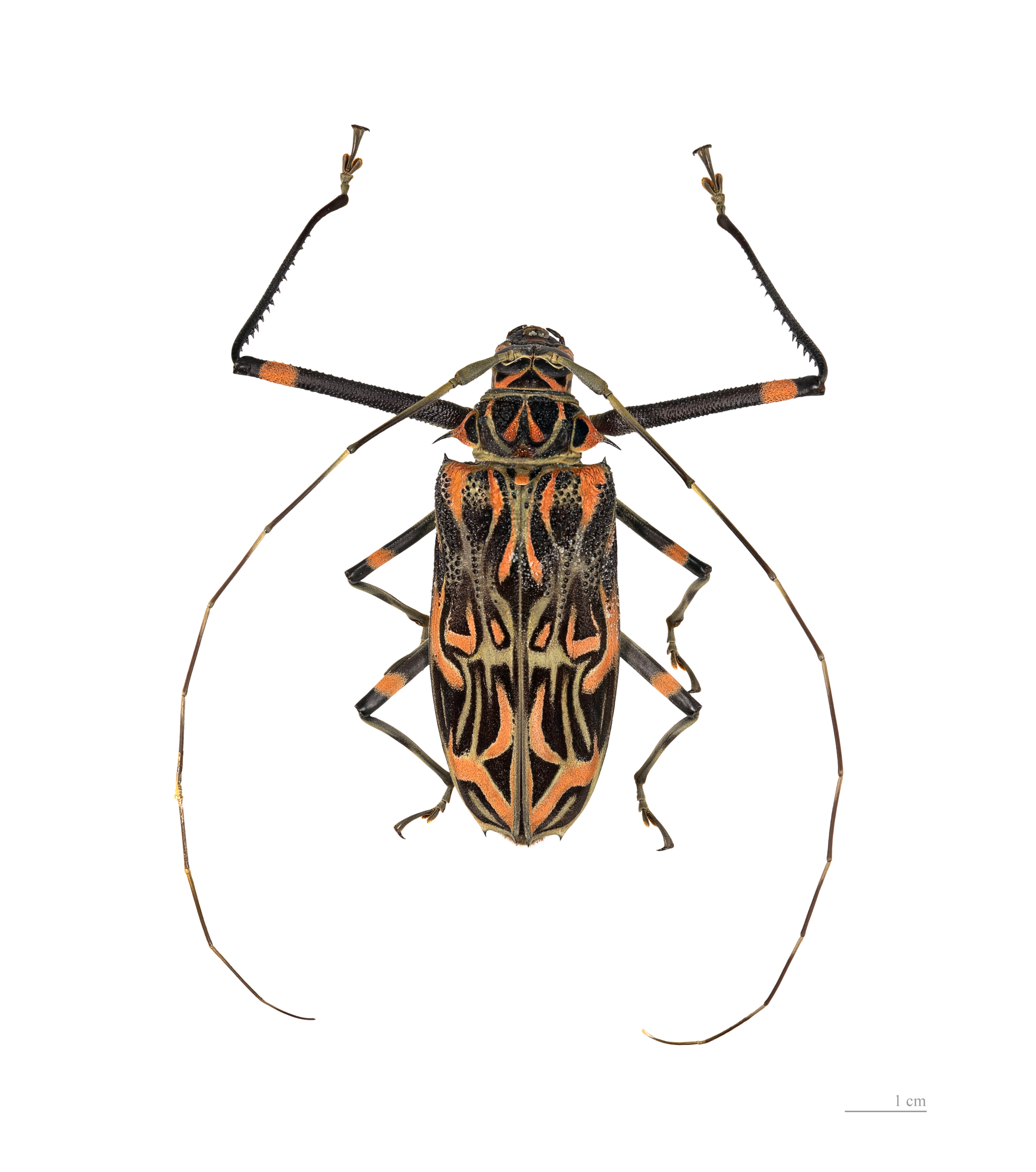 ♀ - Dorsal side Locality : Route de Kaw, scierie, French Guiana.